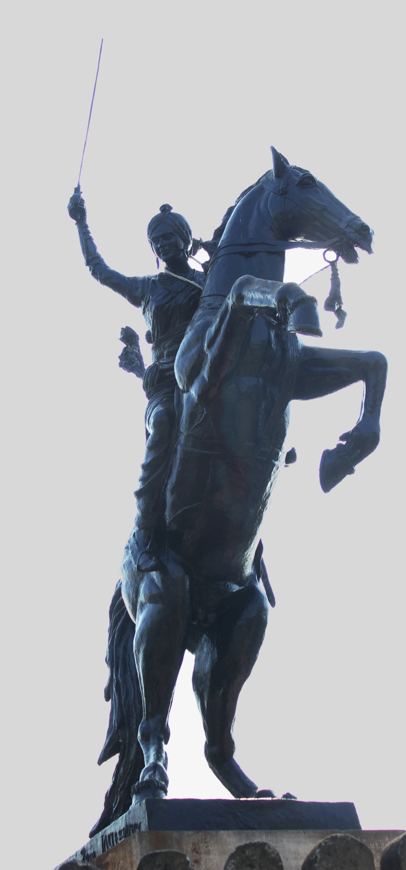 RANI LAXMIBAI STATUE VIEW 2 NEAR SHIVRANJINI AHMEDABAD -BY GUFRAN KHAN